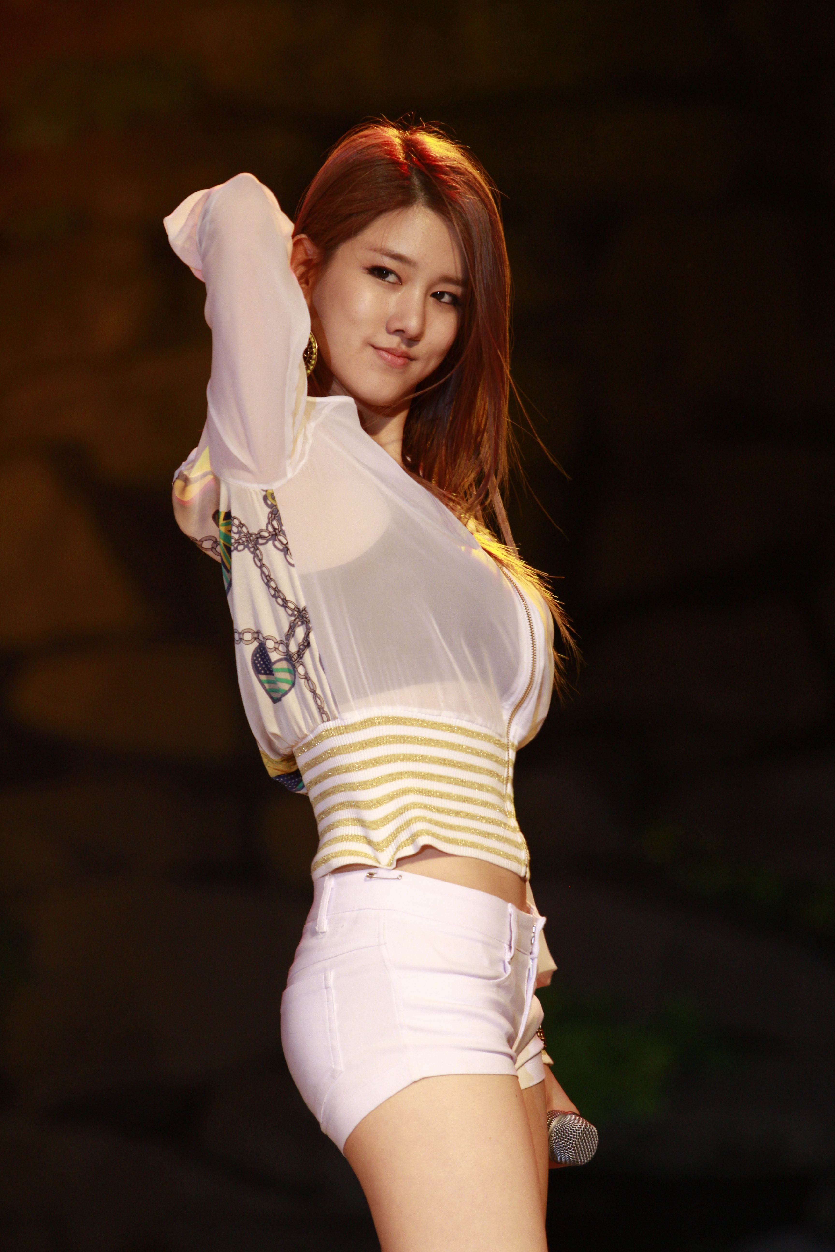 2012.05.04 Hwadojin Festival SPICA-Yang ji won